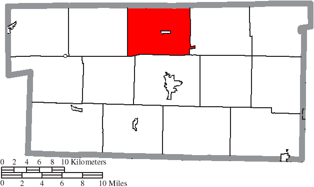 Map of the municipal and township boundaries of Holmes County, Ohio, United States, as of the 2000 census, with the location of Prairie Township highlighted. Township borders are shown only in unincorporated areas in order to differentiate incorporated and unincorporated areas more clearly.